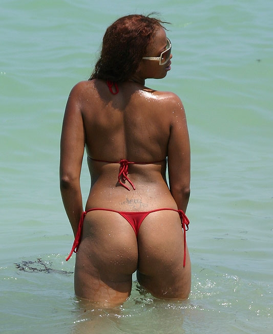 Miami Spring Festival 2005, Miami Beach, FL, USA - sunbathing, beach, afroamerican woman, black, Bikini, Tanga